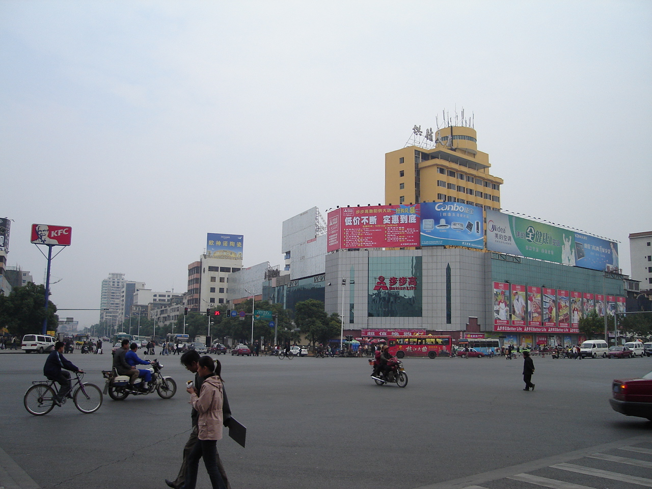 One of the main intersections in Hengyang, Hunan, China.